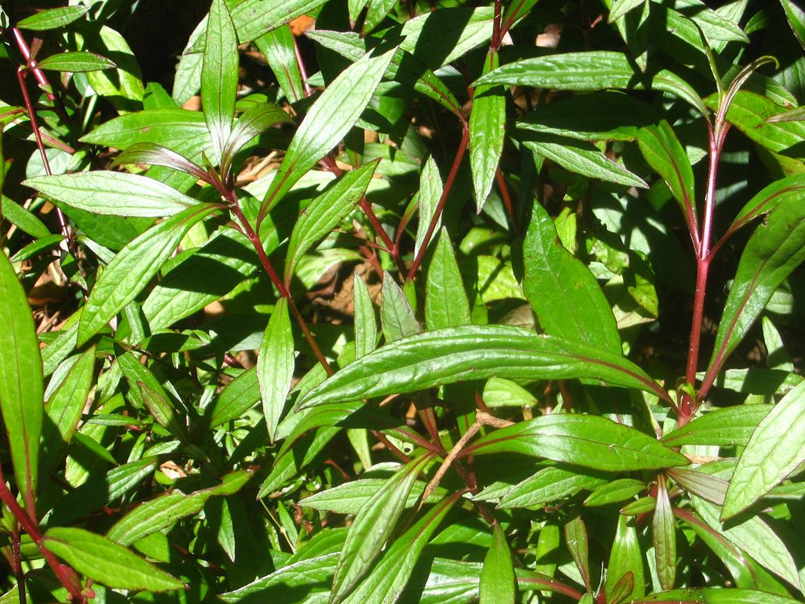 leaves